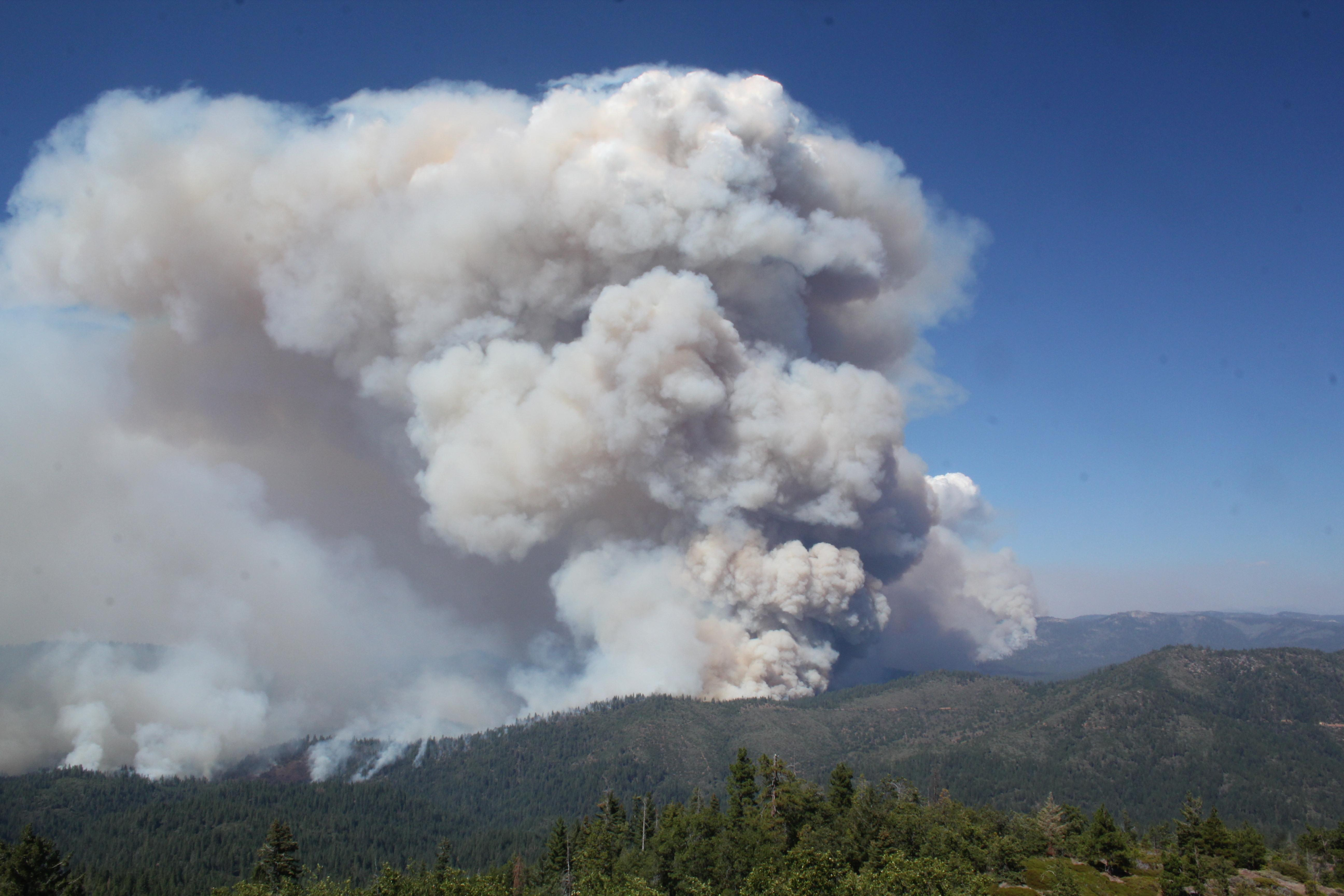 The Rim Fire in the Stanislaus National Forest near in California began on Aug. 17, 2013 and is under investigation. The fire has consumed approximately 192,737 acres and is 30% contained. U.S. Forest Service photo.